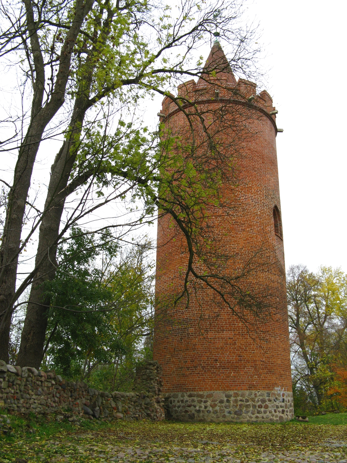 Putlitz Castle, Brandenburg, Germany